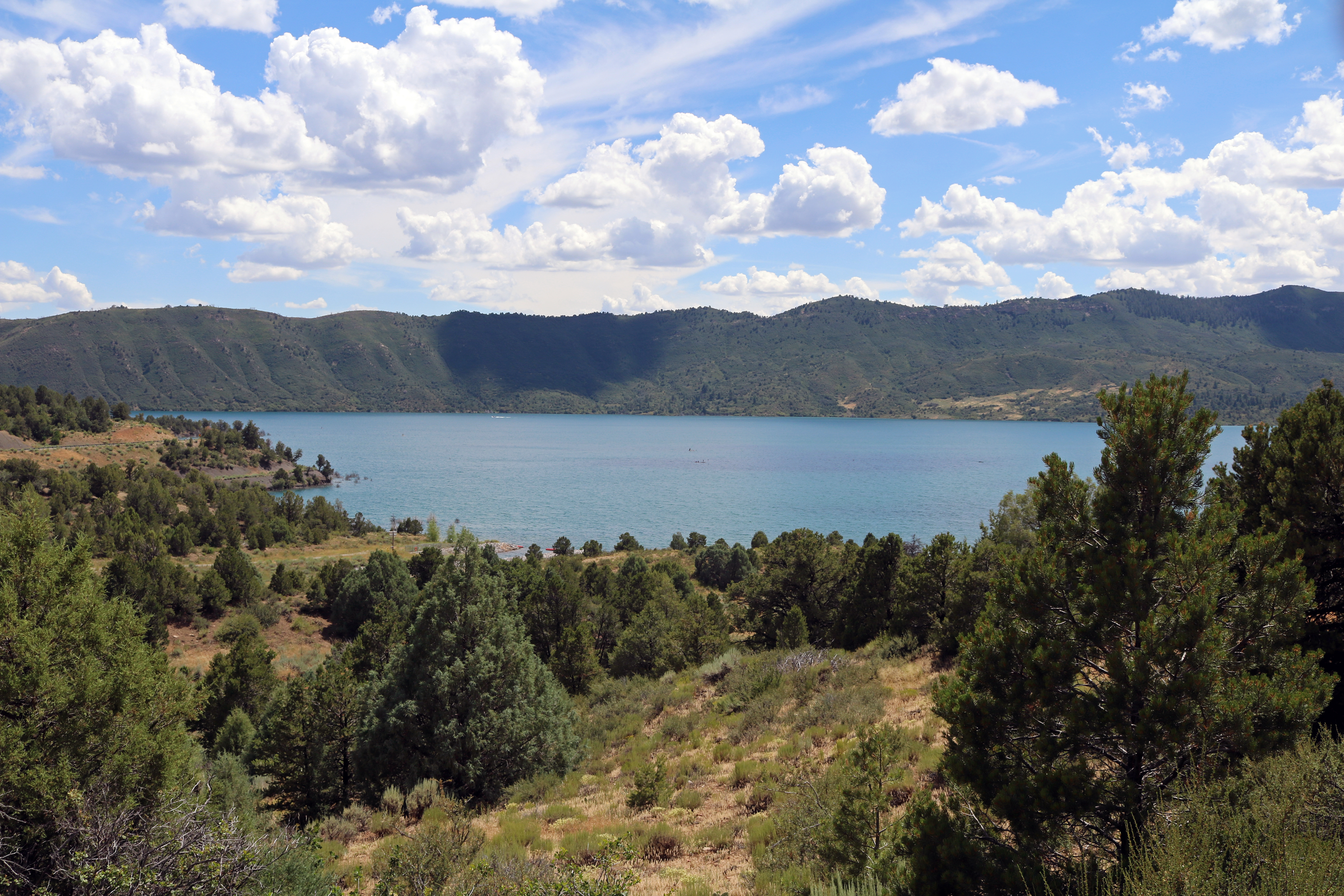 Lake Nighthorse in the Ridges Basin in La Plata County, Colorado. The view is from the overlook on County Road 210.